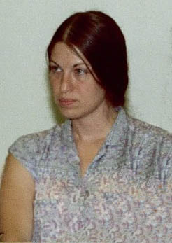 Comic artist Jan Duursema, on the Women In Comics panel at the 1982 San Diego Comic Con (today called Comic-Con International).